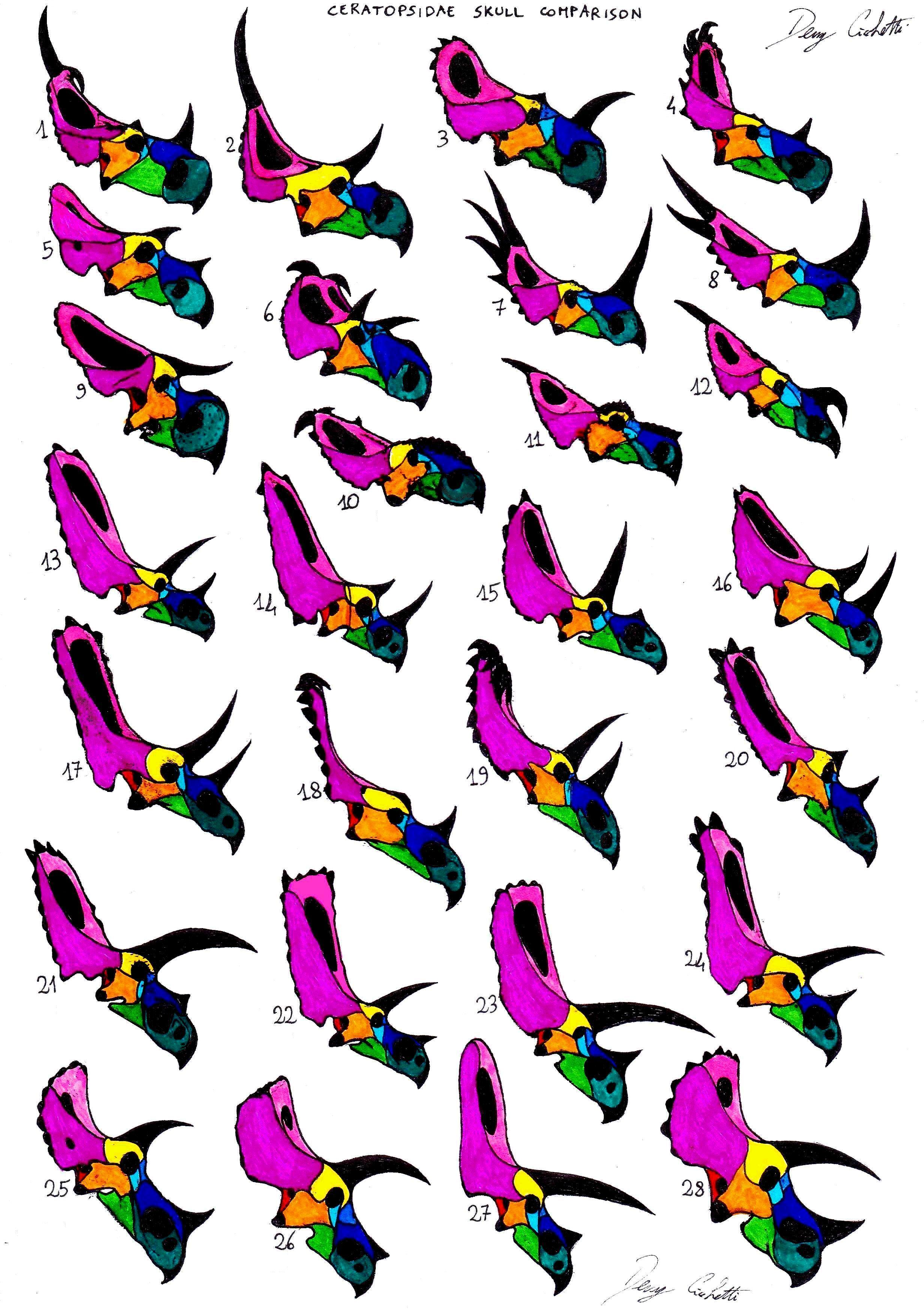 1 = Spinops 2 = Diabloceratops 3 = Centrosaurus 4 = Sinoceratops 5 = Avaceratops 6 = Albertaceratops 7 = Styracosaurus 8 = Rubeosaurus 9 = Nasutoceratops 10 = Pachyrhinosaurus 11 = Achelousaurus 12 = Einiosaurus 13 = Chasmosaurus russelli 14 = Chasmosaurus belli 15 = Agujaceratops 16 = Eoceratops 17 = Mojoceratops 18 = Vagaceratops 19 = Kosmoceratops 20 = Utahceratops 21 = Coahuilaceratops 22 = Bravoceratops 23 = Titanoceratops 24 = Pentaceratops 25 = Tatankaceratops 26 = Ojoceratops 27 = Torosaurus 28 = Triceratops